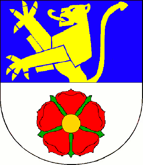 Municipal coat of arms of Dražice village, Tábor District, Czech Republic.